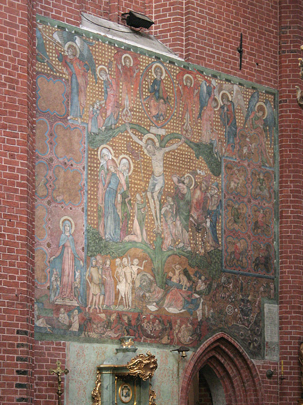 Toruń, church of SS. Johns. Painting in choir - Crucifixion on the Tree of Jesse